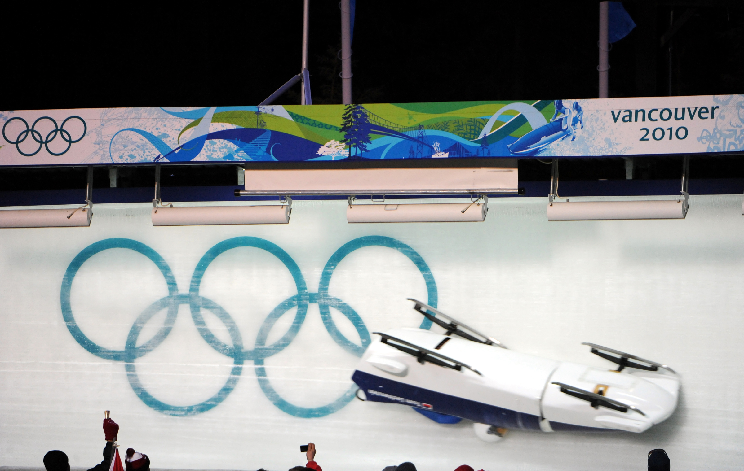 Accident d'un bosleigh britannique lors de l'épreuve olympique 2010 à Whistler.